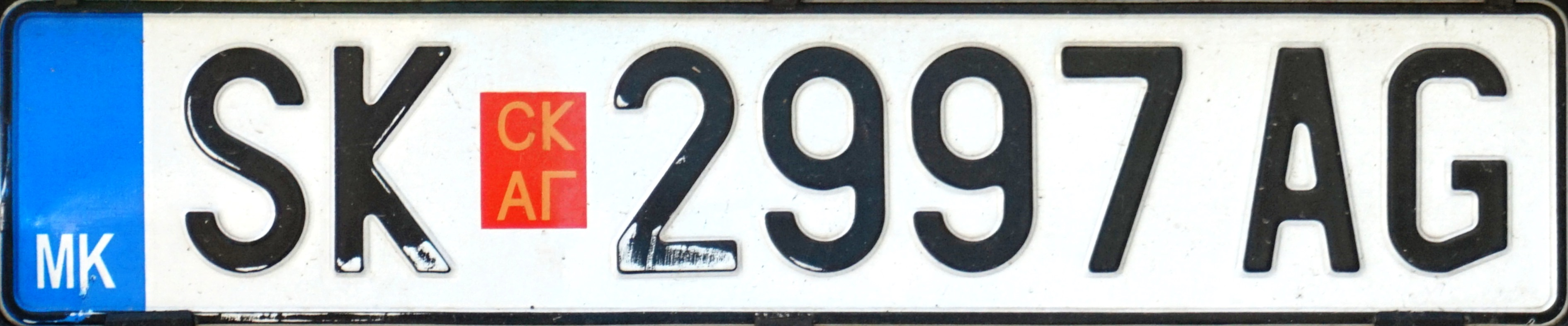 New Vehicle registration plates of the Republic of Macedonia (from 2012)